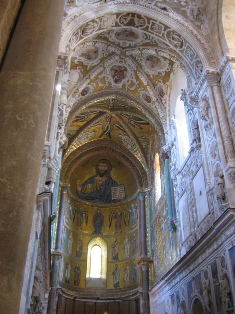 Author : Urban Description : Duomo, Cefalù, Sicilia Body : Canon Powershot A80 Date : August, 2005